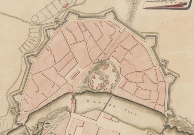 Fortifikation of Sluck, Belarus